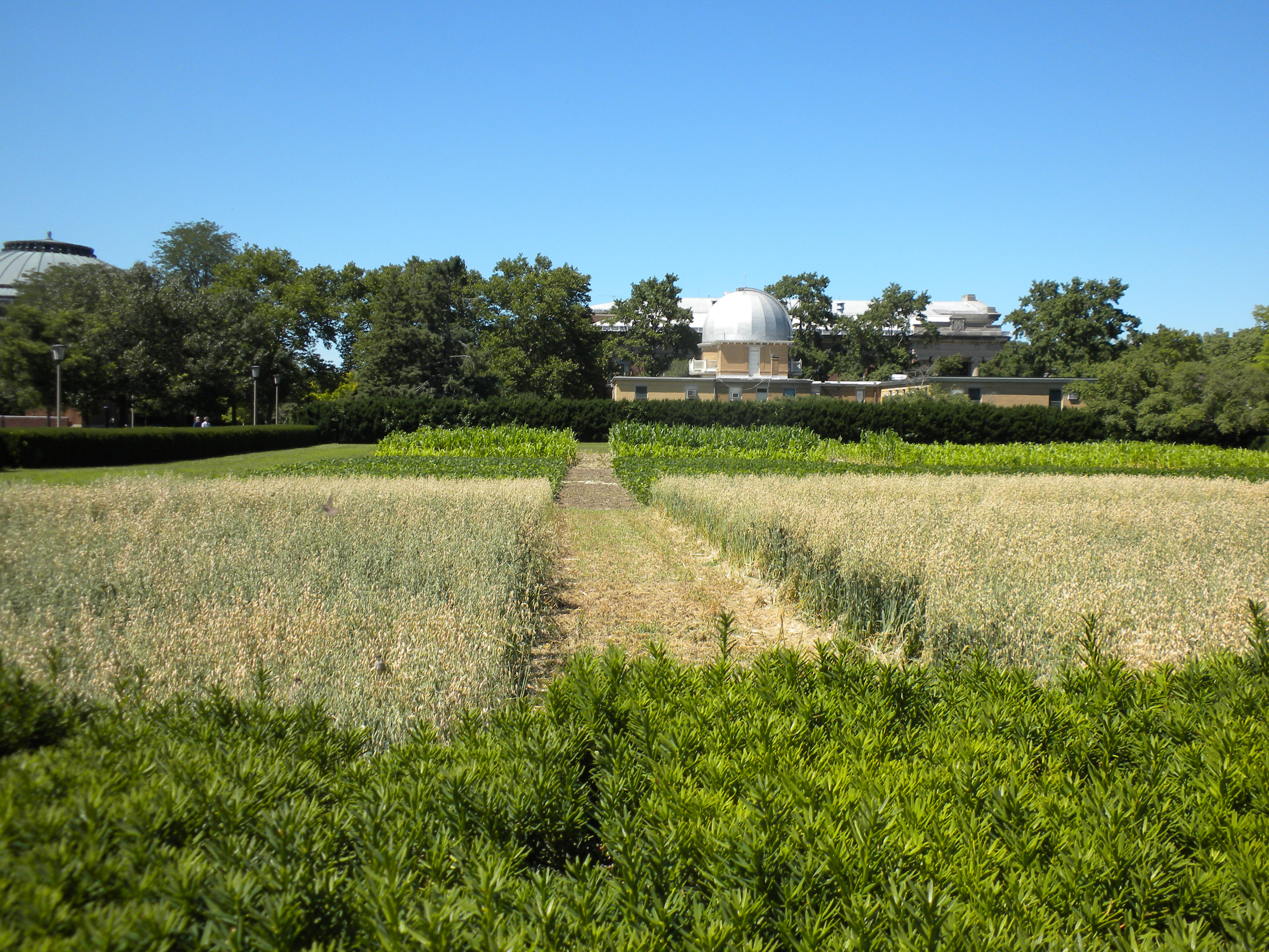 The famous Morrow Plots at the University of Illinois in Urbana, Illinois, USA. On the National Register of Historic Places. Experimental crop plot. The U of I observatory is in the background, also on the NRHP.